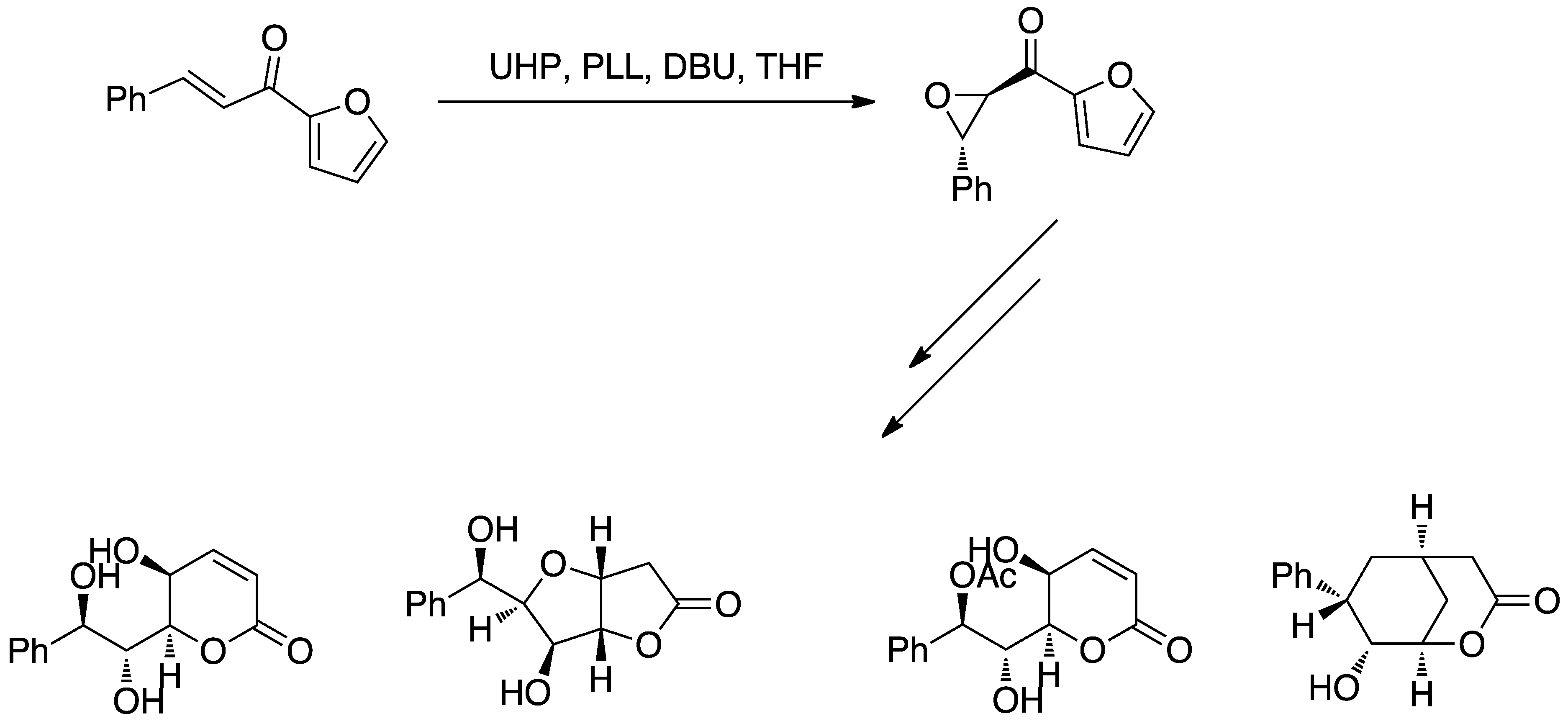 The Juliá-Colonna Epoxidation has been applied to the Total Synthesis of (+)-goniotriol 7, (+)-goniofufurone 8, (+)-8-acetylgoniotriol 9 and gonio-pypyrone. From Chen, W. P.; Roberts, S. M., Julia-Colonna asymmetric epoxidation of furyl styryl ketone as a route to intermediates to naturally-occurring styryl lactones. J. Chem. Soc.-Perkin Trans. 1 1999, (2), 103-105.